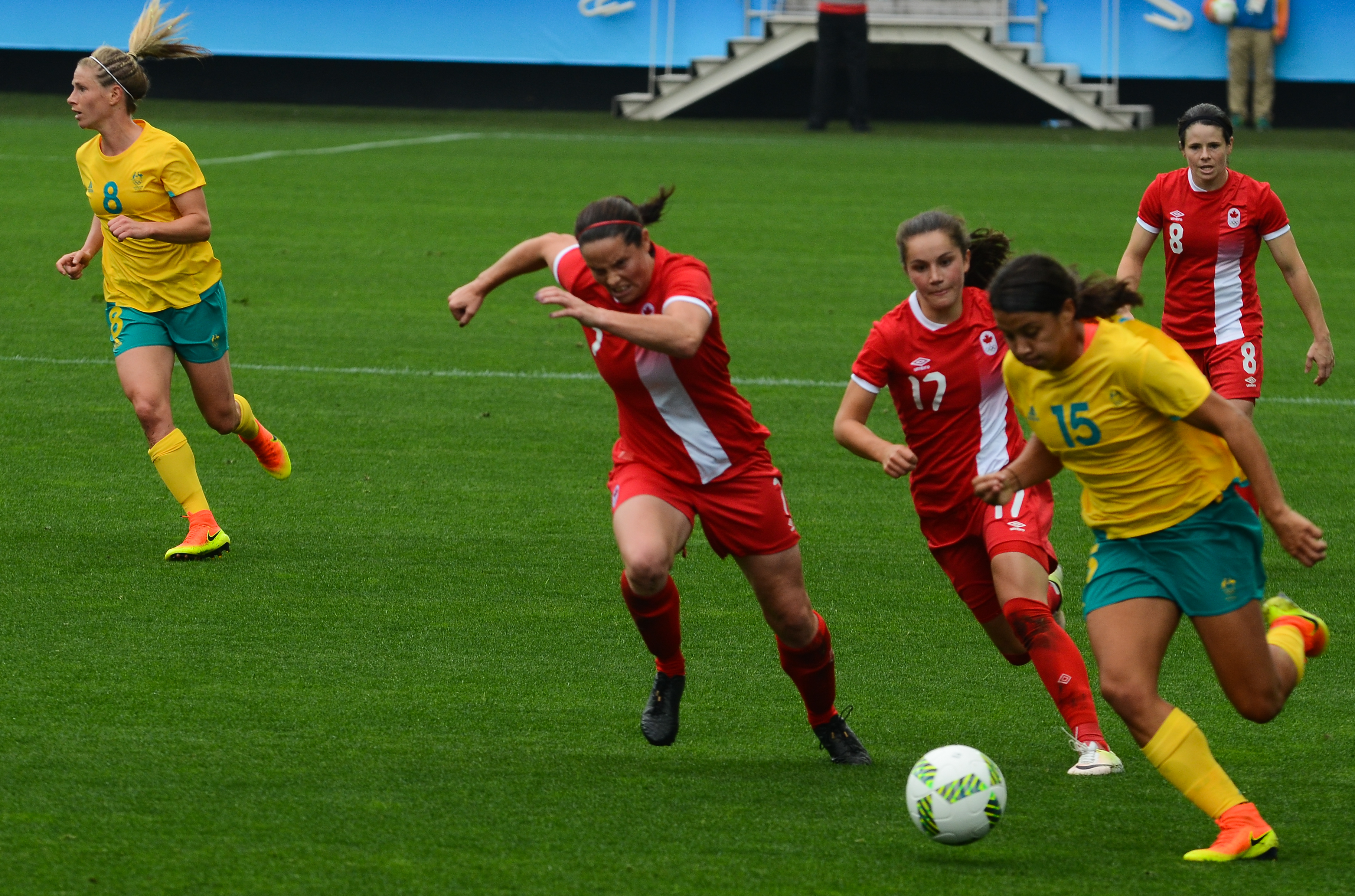 Canada versus Australia at the 2016 Summer Olympics, 3 August 2016.